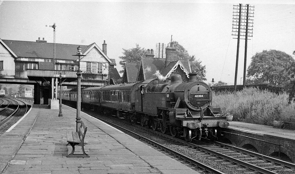 Calverley & Rodley Station, with a St Pancras to Bradford express on its last leg from Leeds. View eastward towards Leeds City; ex-Midland main line, Leeds - Shipley/Bradford Forster Square, Skipton, Hellifield, Carlisle/Morecambe. The train is the 12.15 from London St Pancras, which will have reversed at Leeds and is being taken on to Bradford by LMS Fowler 4P 2-6-4T No. 42394. The purely local services were by then being worked by Diesel multiple-units and one can just be seen far left.